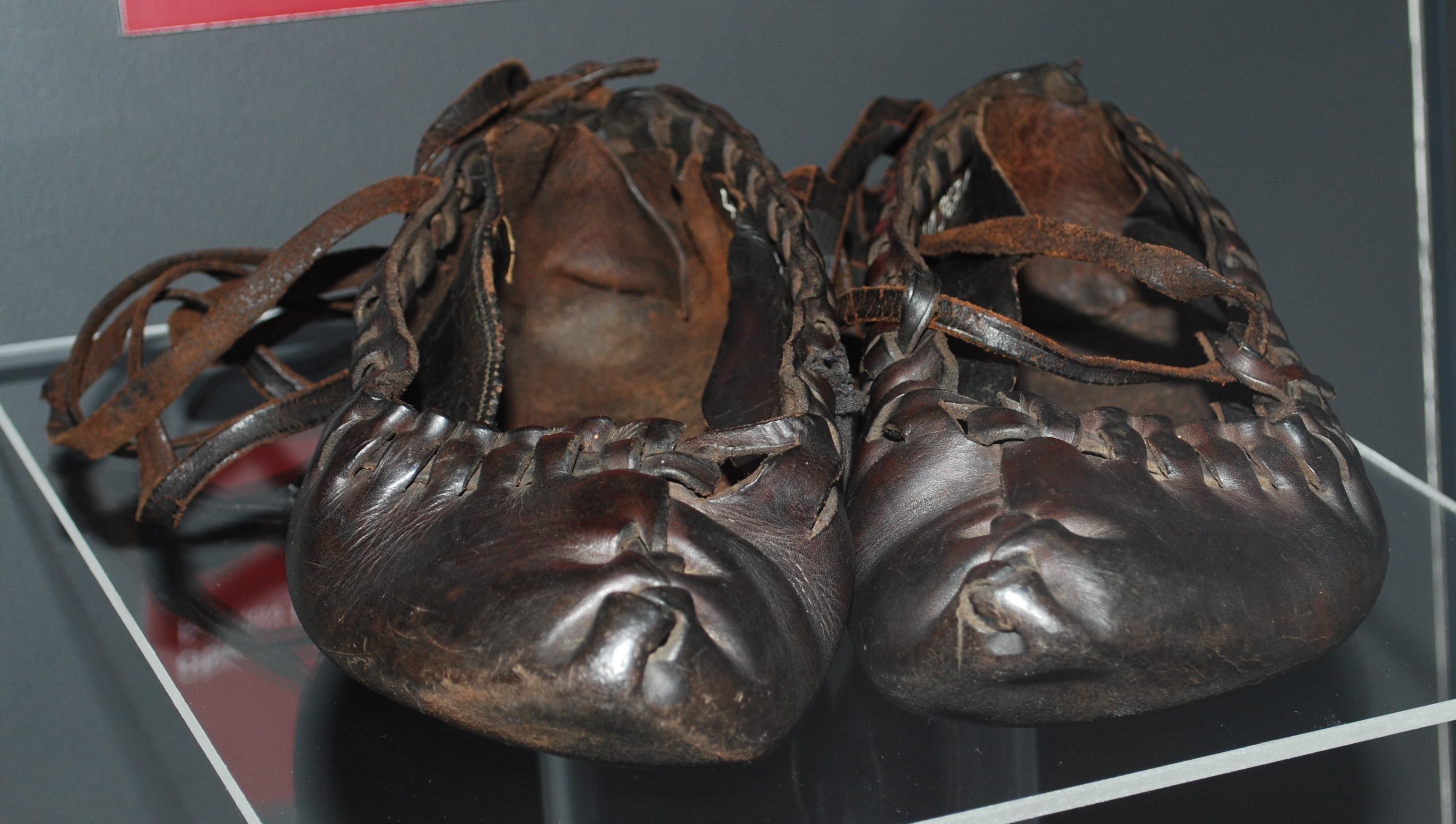 Valachian traditional leather shoes "kierpce" from 1925